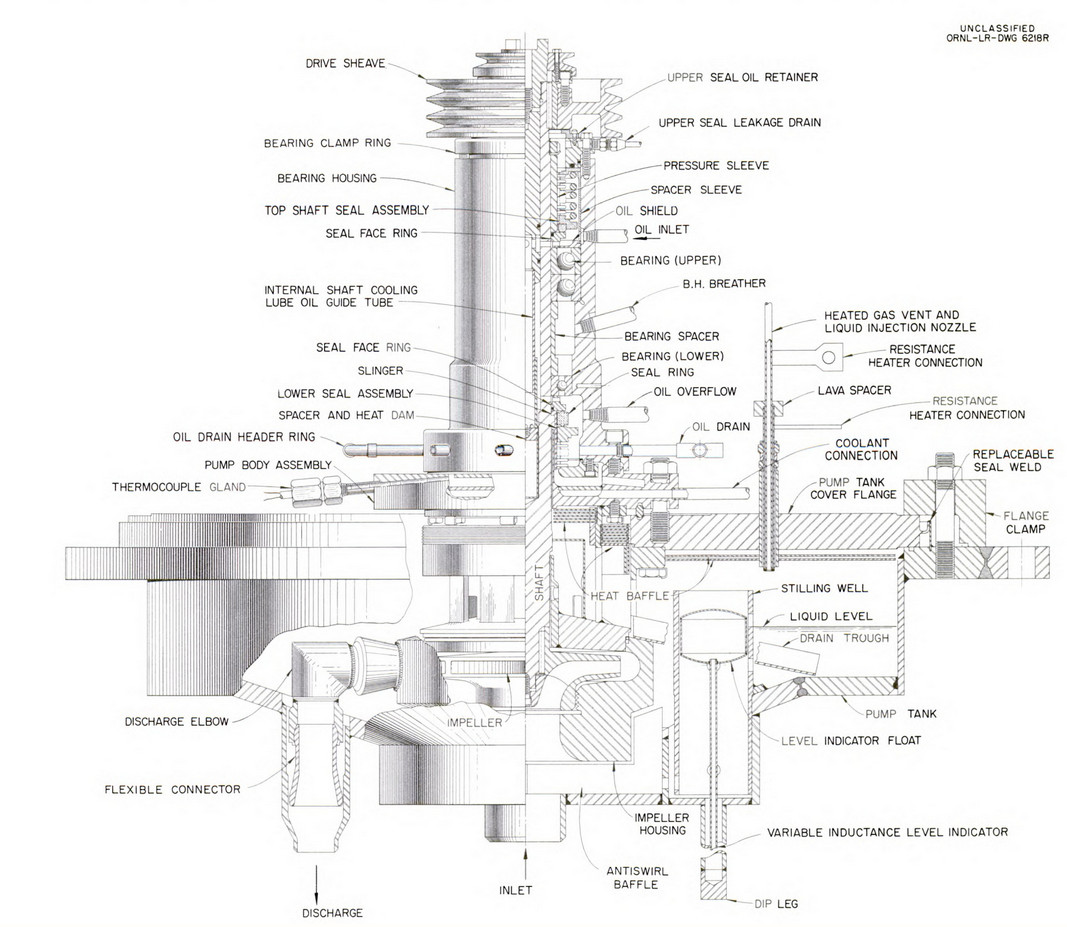 The molten salt fuel pump used in the Aircraft Reactor Experiment. From ORNL-2348